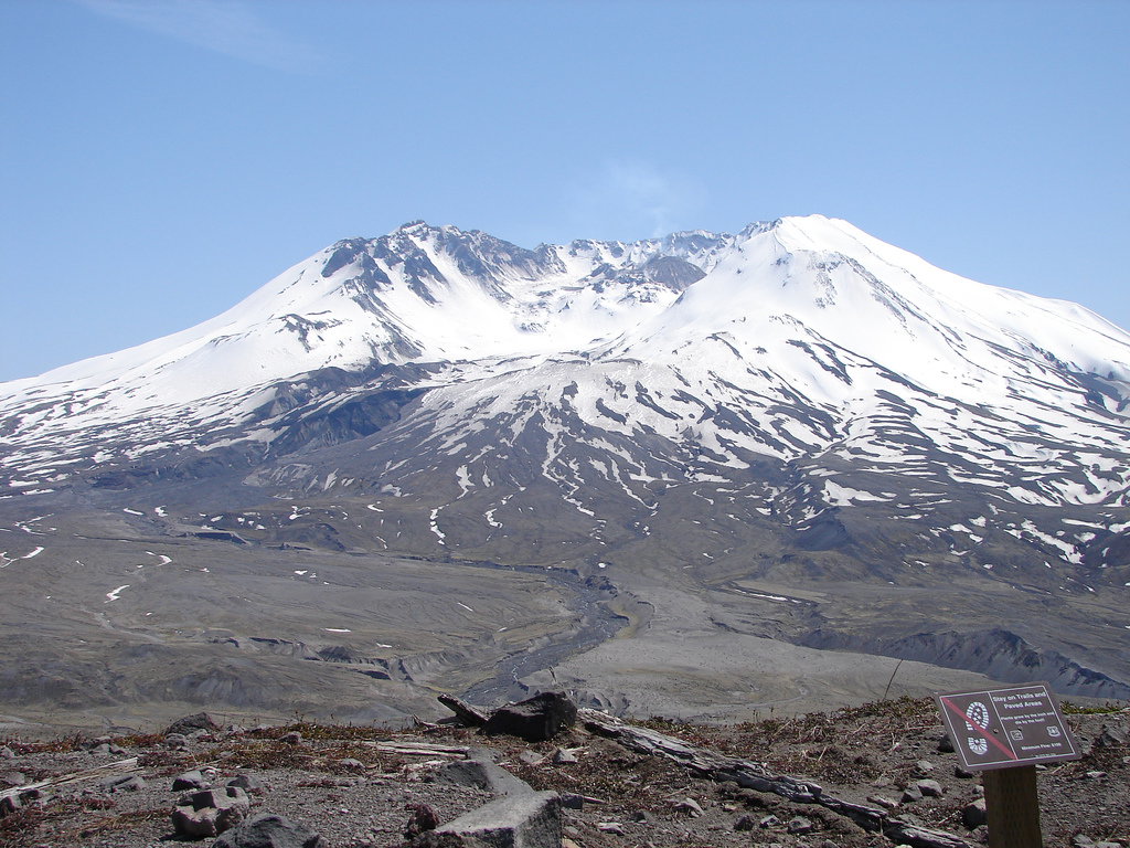 Snowy Mount Saint Helens from Johnson Ridge, State of Washington, United-States